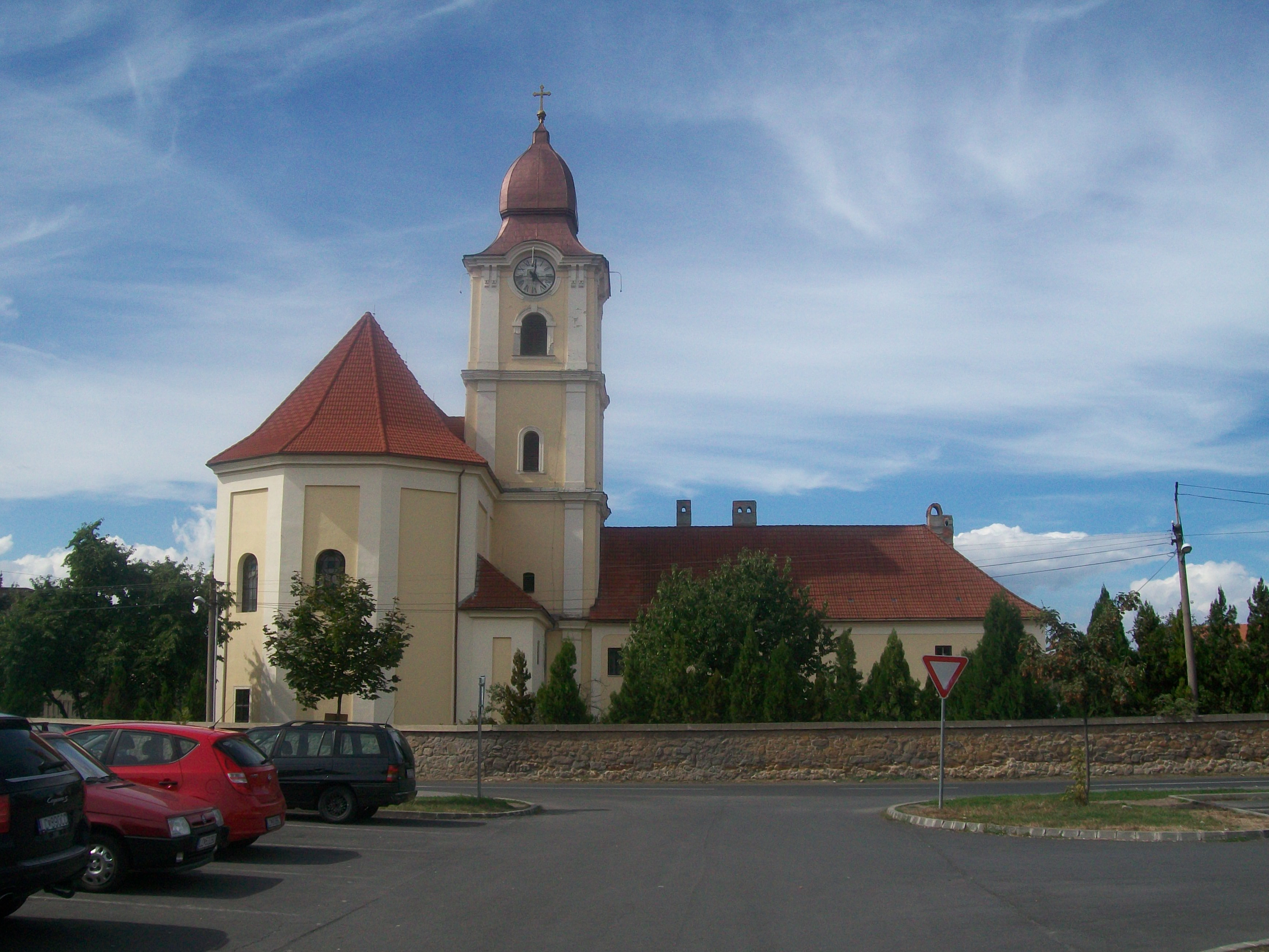 Coronation of the Virgin Mary Church and Franciscan Monastery in Fiľakovo